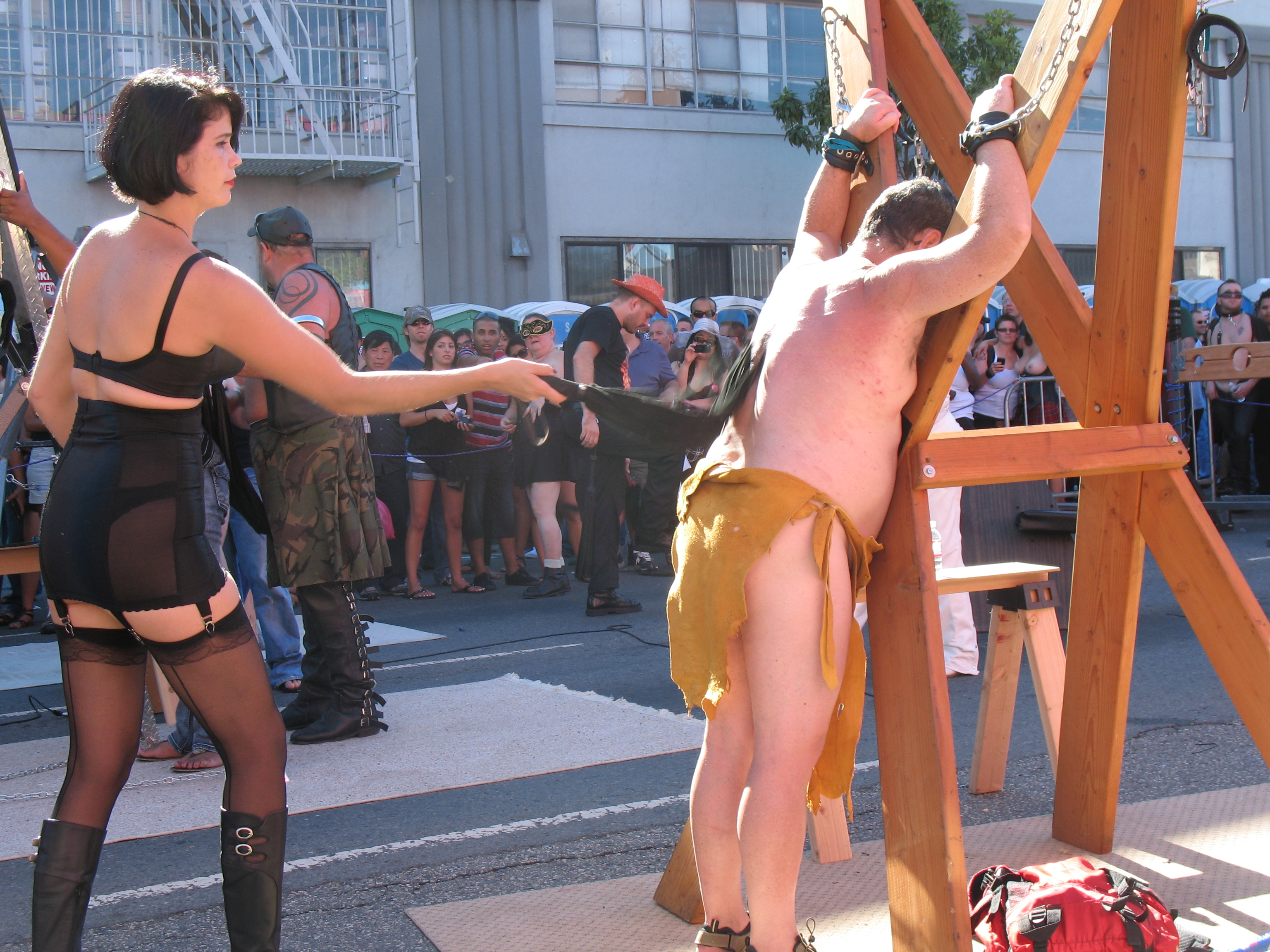 Punishment